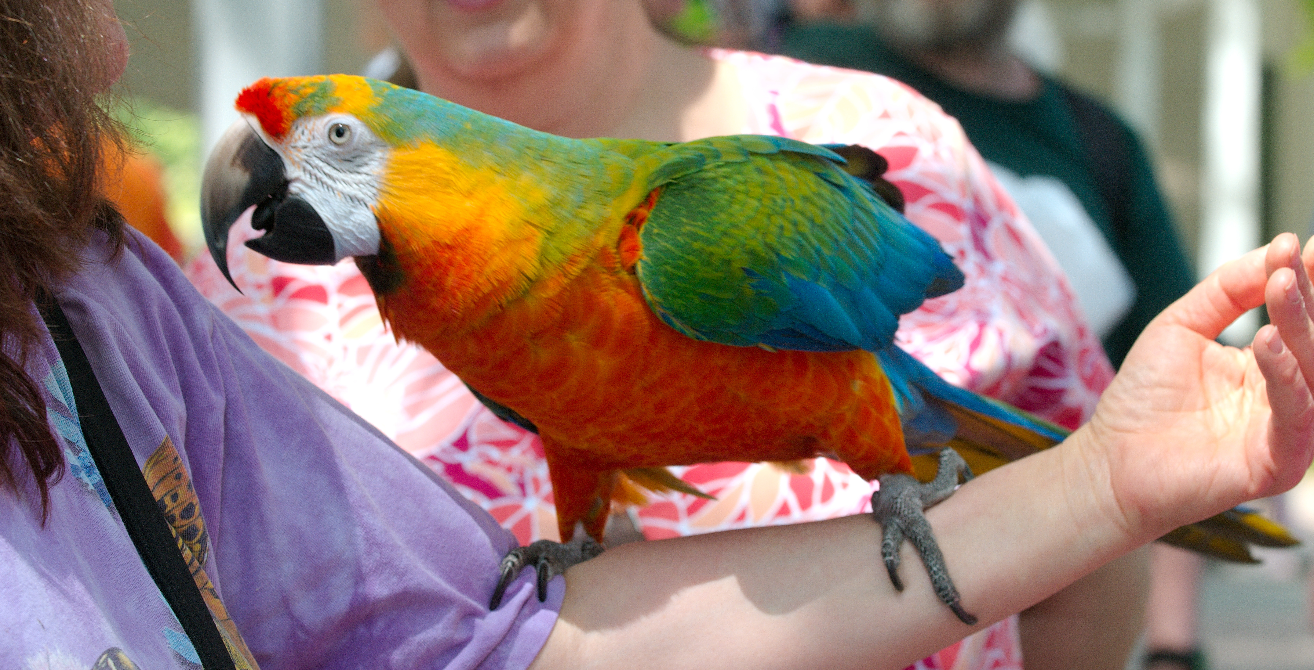 An Ara hybrid with its owner.